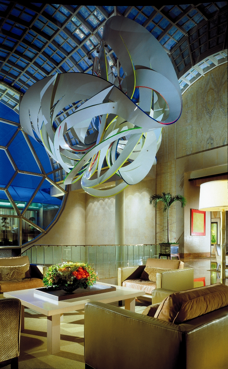 This work, suspended from the ceiling of the main lobby of The Ritz-Carlton Millenia Singapore, is one of the 4,200 pieces of artwork and sculptures in the hotel.